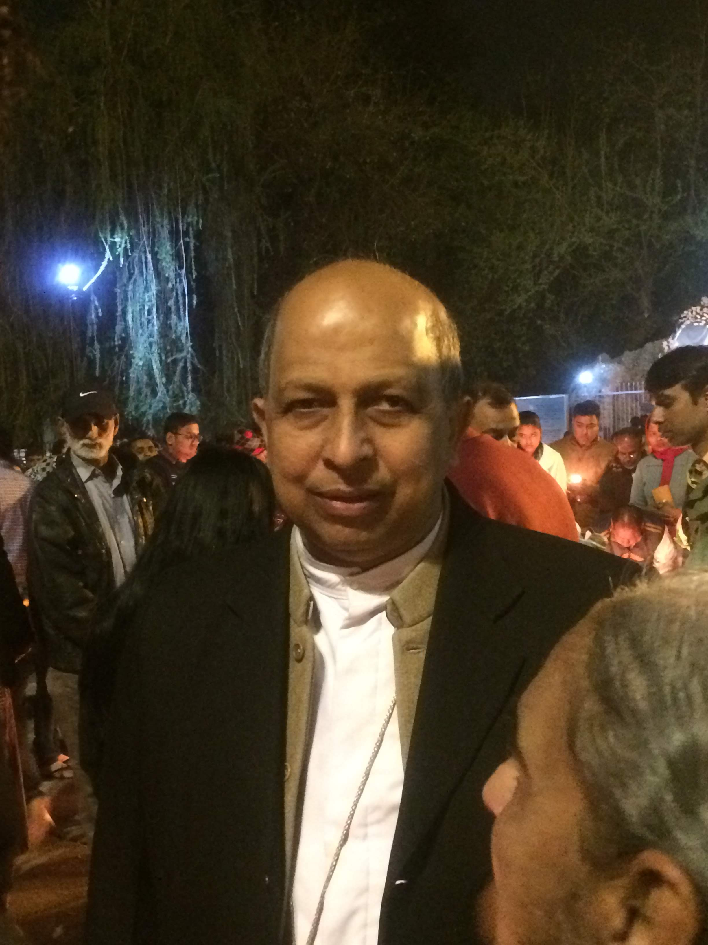 Archbishop Anil Joseph Thomas Couto